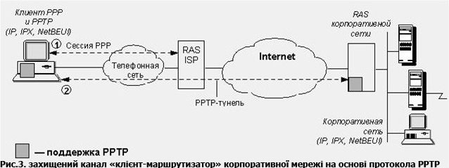 securitu